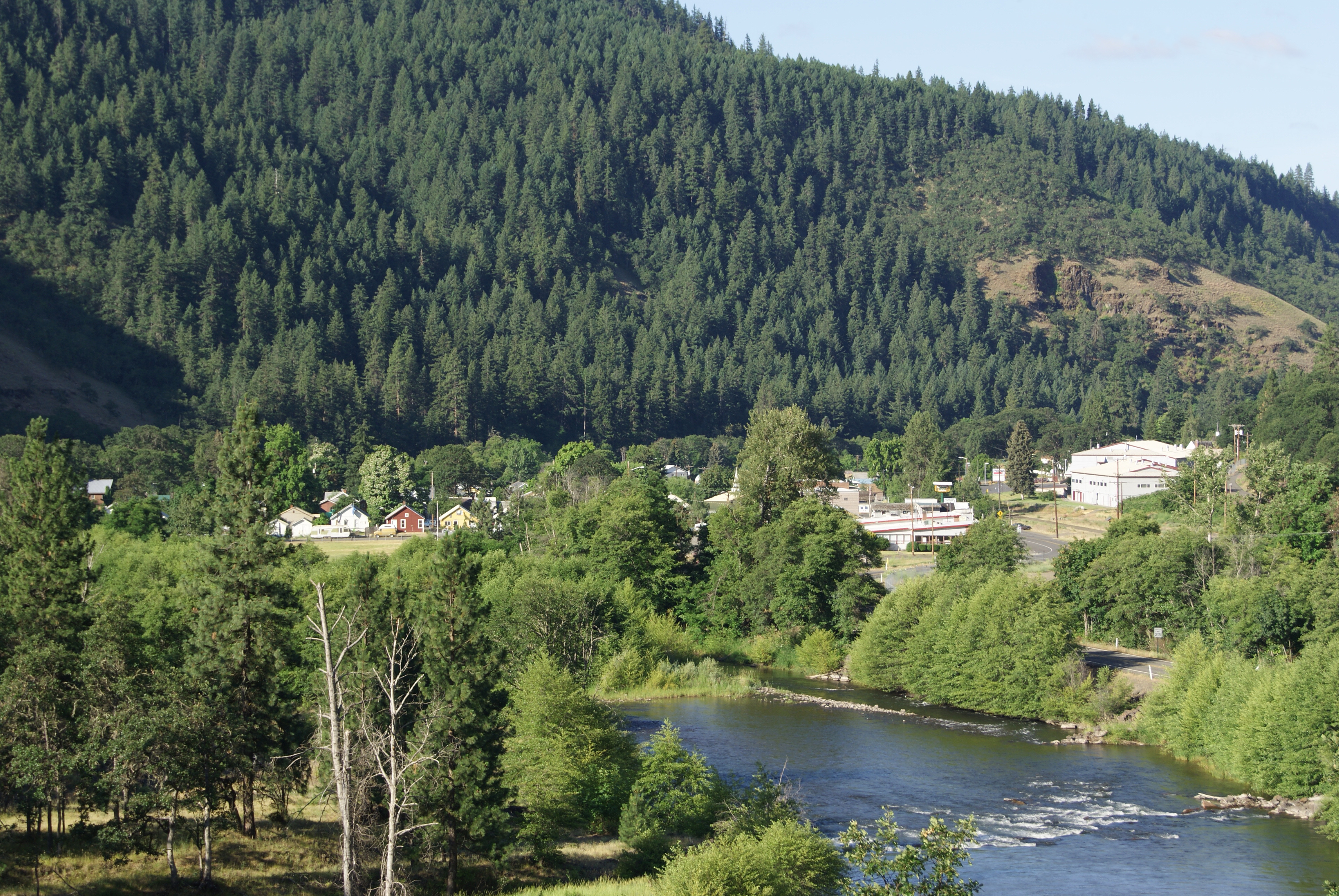 View of downtown Klickitat